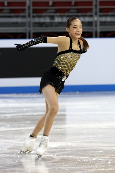 Photos – Junior World Championships 2018 – Ladies (Young YOU KOR – 9th Place)